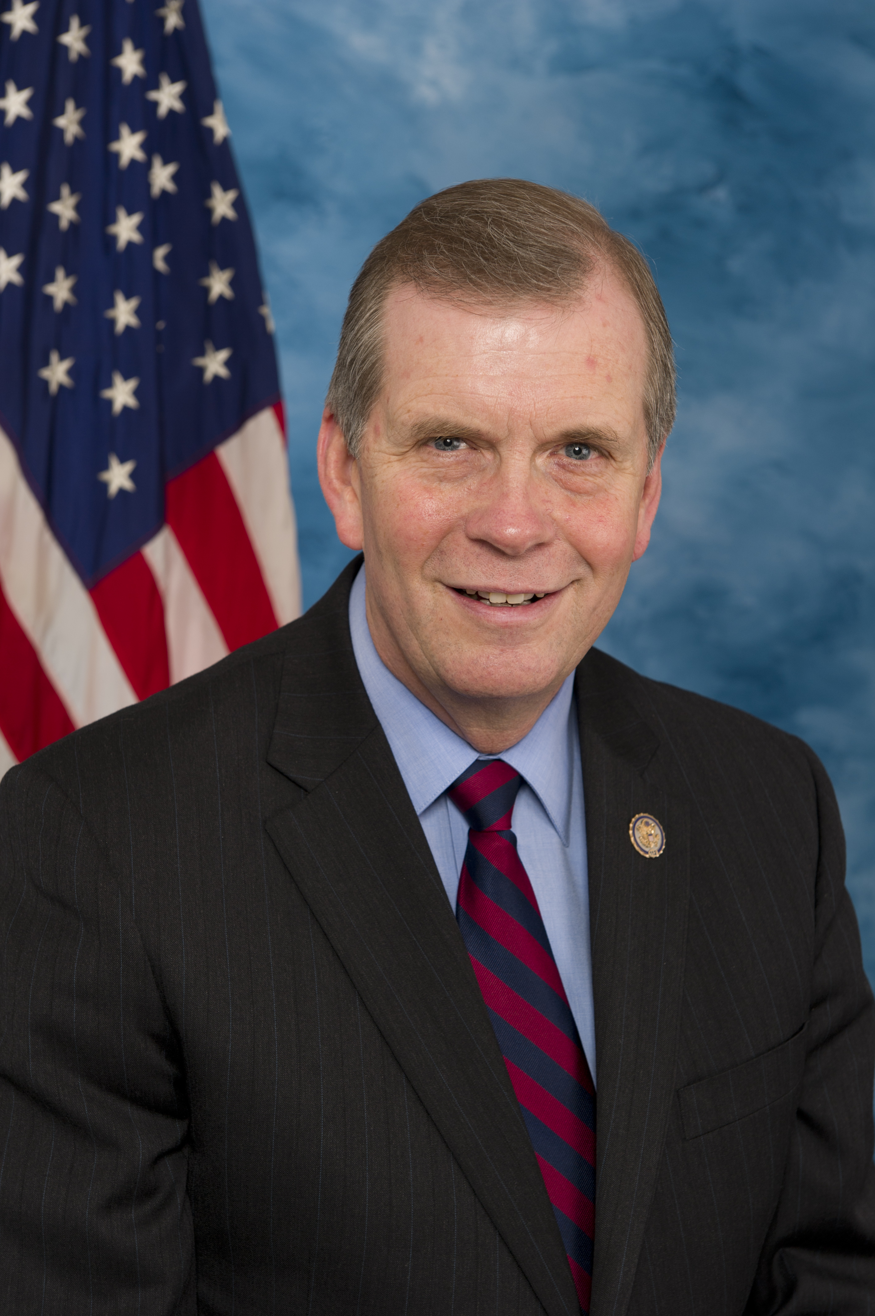 Official portrait of US Rep. Tim Walberg